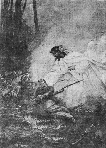 Initially built during the 1890s on the site of Camp Curtin, the former Union Army recruiting and training camp during the American Civil War which operated outside of Harrisburg, Pennsylvania between 1861 and 1865, the Camp Curtin M.E. Church was rebuilt during the early 1900s and then expanded again between 1915 and 1916. During this latter expansion, church leaders chose to dedicate the church as a memorial to all Civil War-era soldiers, and commissioned Civil War orphan C. Day Rudy to paint a mural for the sanctuary which depicted Christ appearing to a fallen soldier. After Rudy completed his work, the painting was donated to the church by the Sixteeners of the Soldiers' Orphan Schools of Pennsylvania. The major local newspaper, the "Harrisburg Telegraph," published this black and white photograph of Rudy's painting on p. 14 of its May 27, 1916 edition.